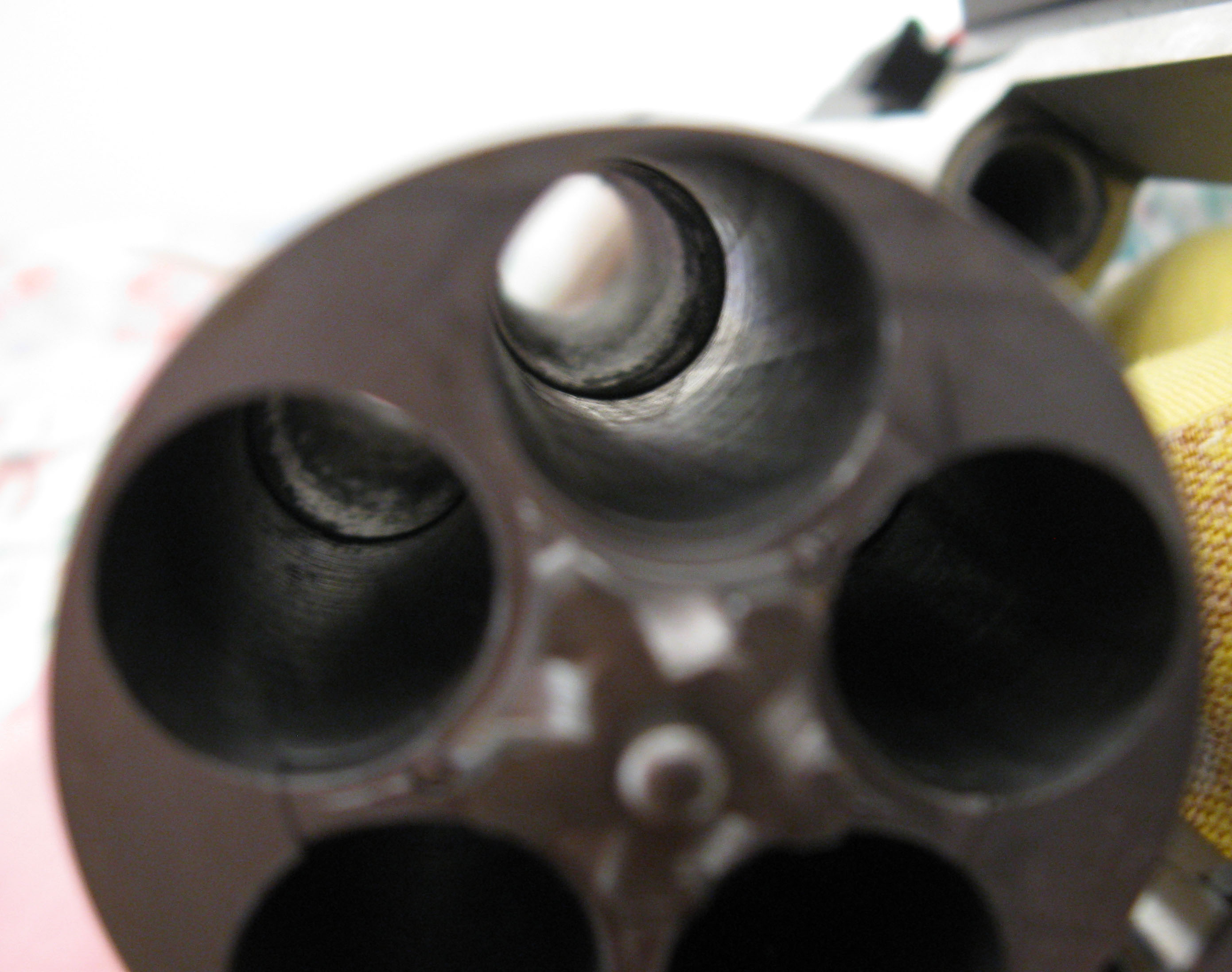 Closeup of the cylinder of a Taurus/Rossi Circuit Judge, showing the choked cylinders that prevent loading .454 Casull rounds.